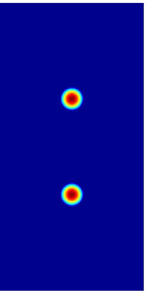 Illustration of Helmholtz equation.